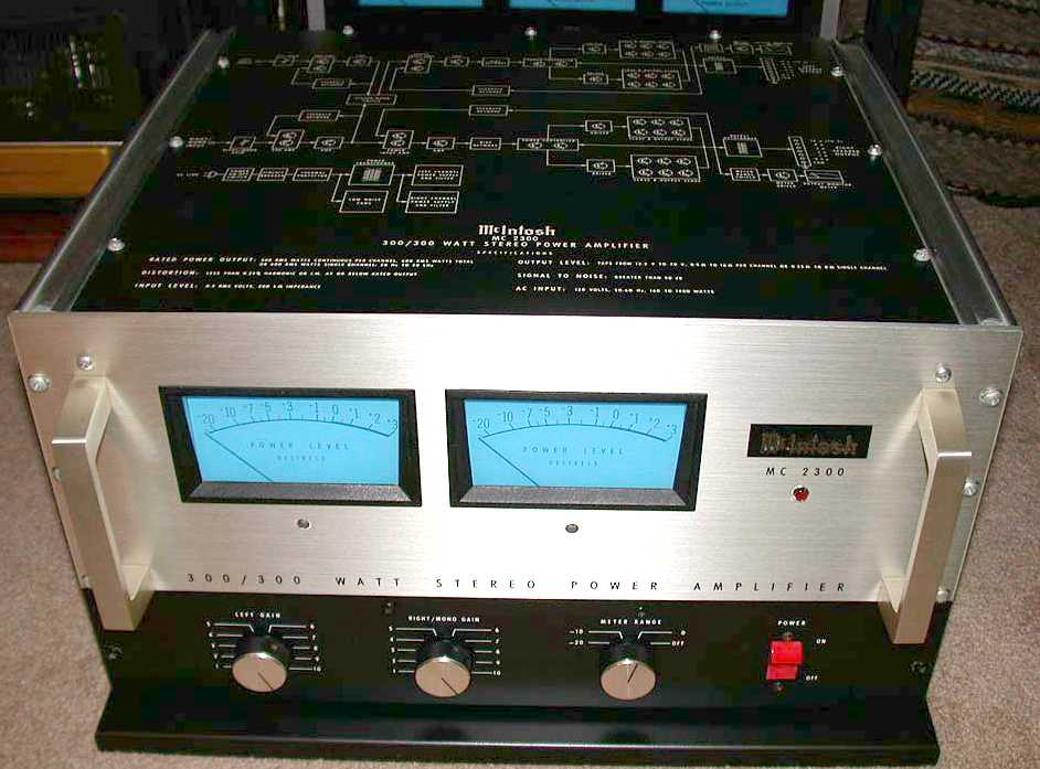 Front view of McIntosh MC-2300 power amplifier